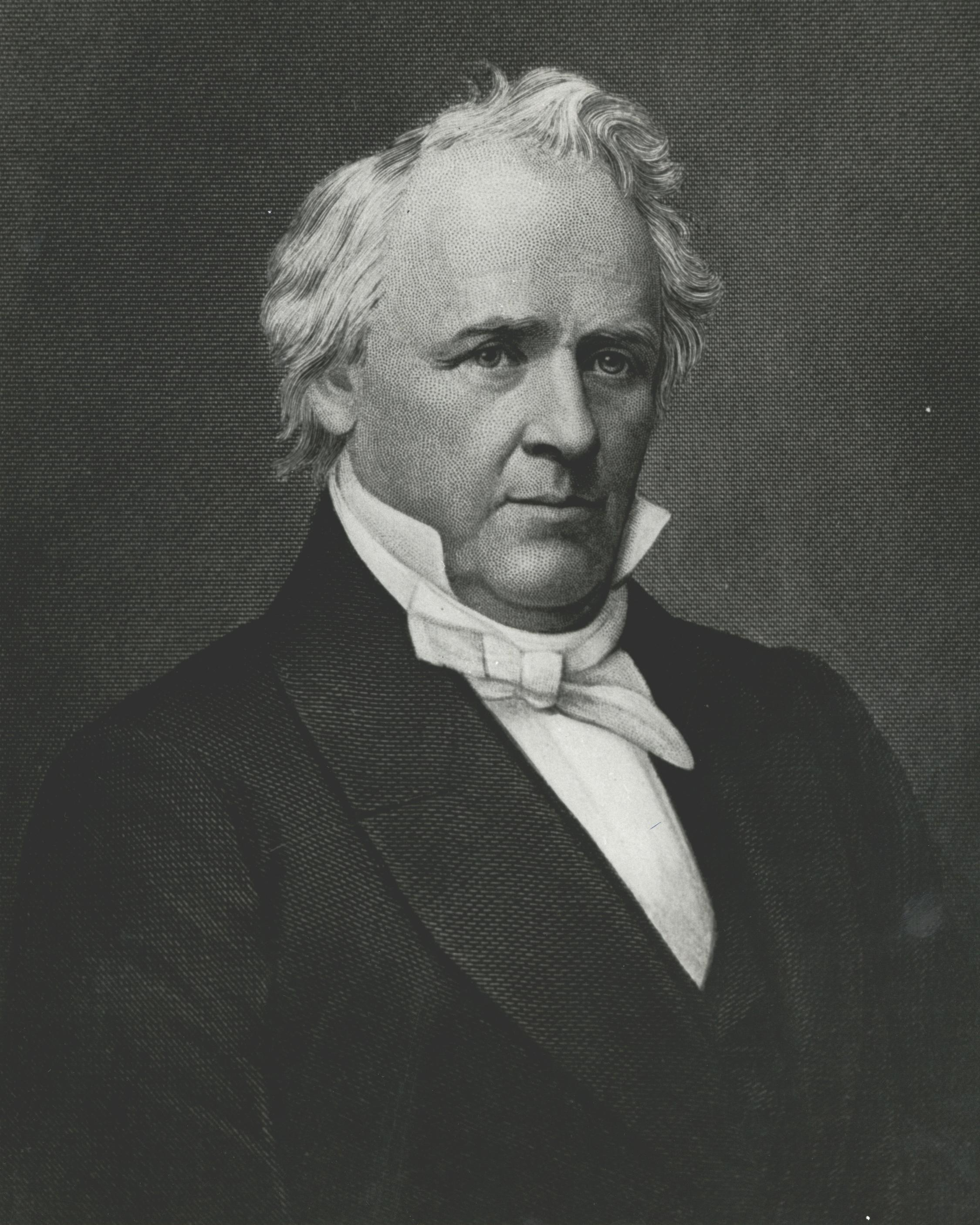 James Buchanan, U.S. Secretary of State, March 10, 1845 to March 7, 1849